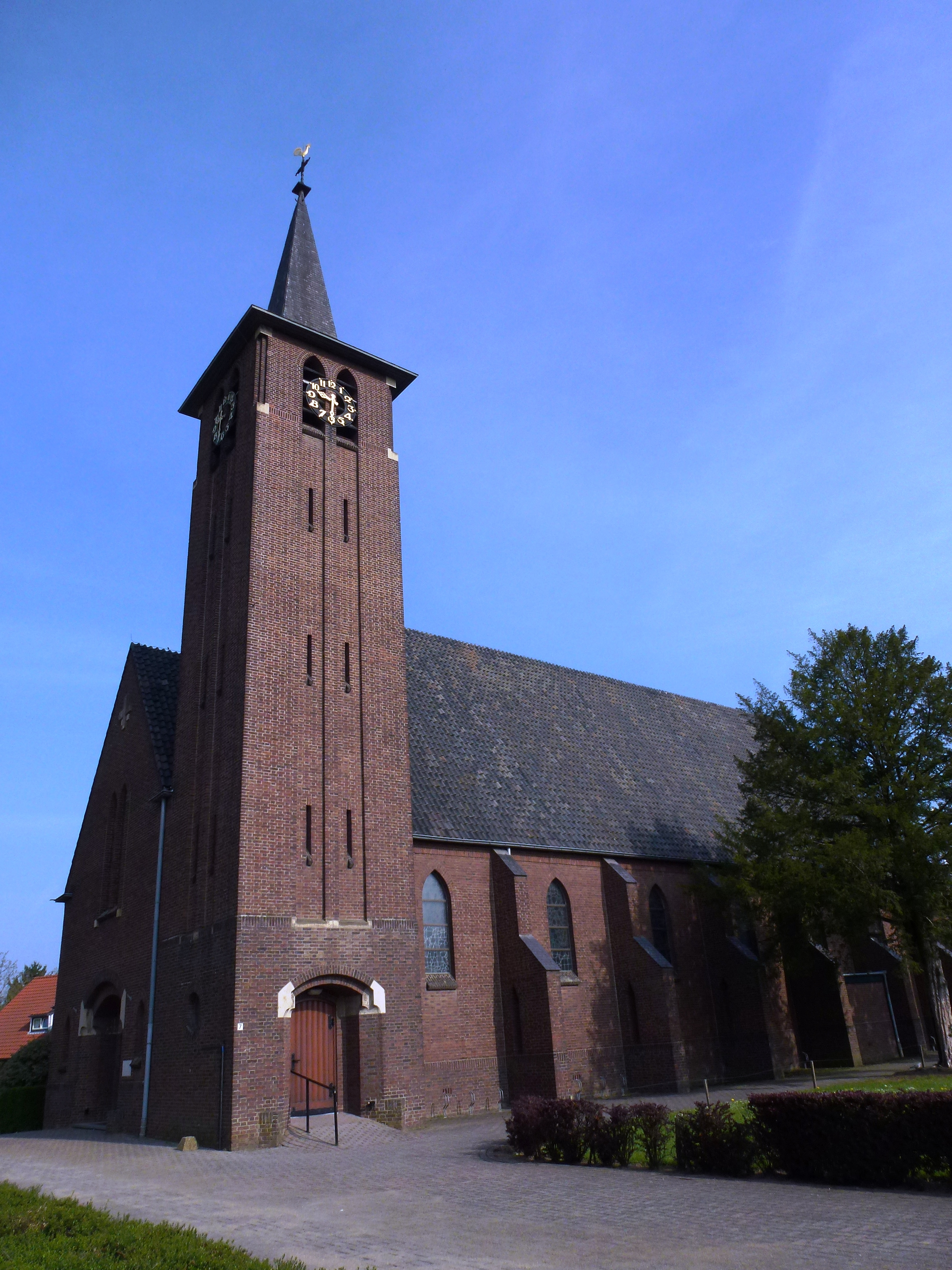 Brachterbeek (Maasgouw) kerk